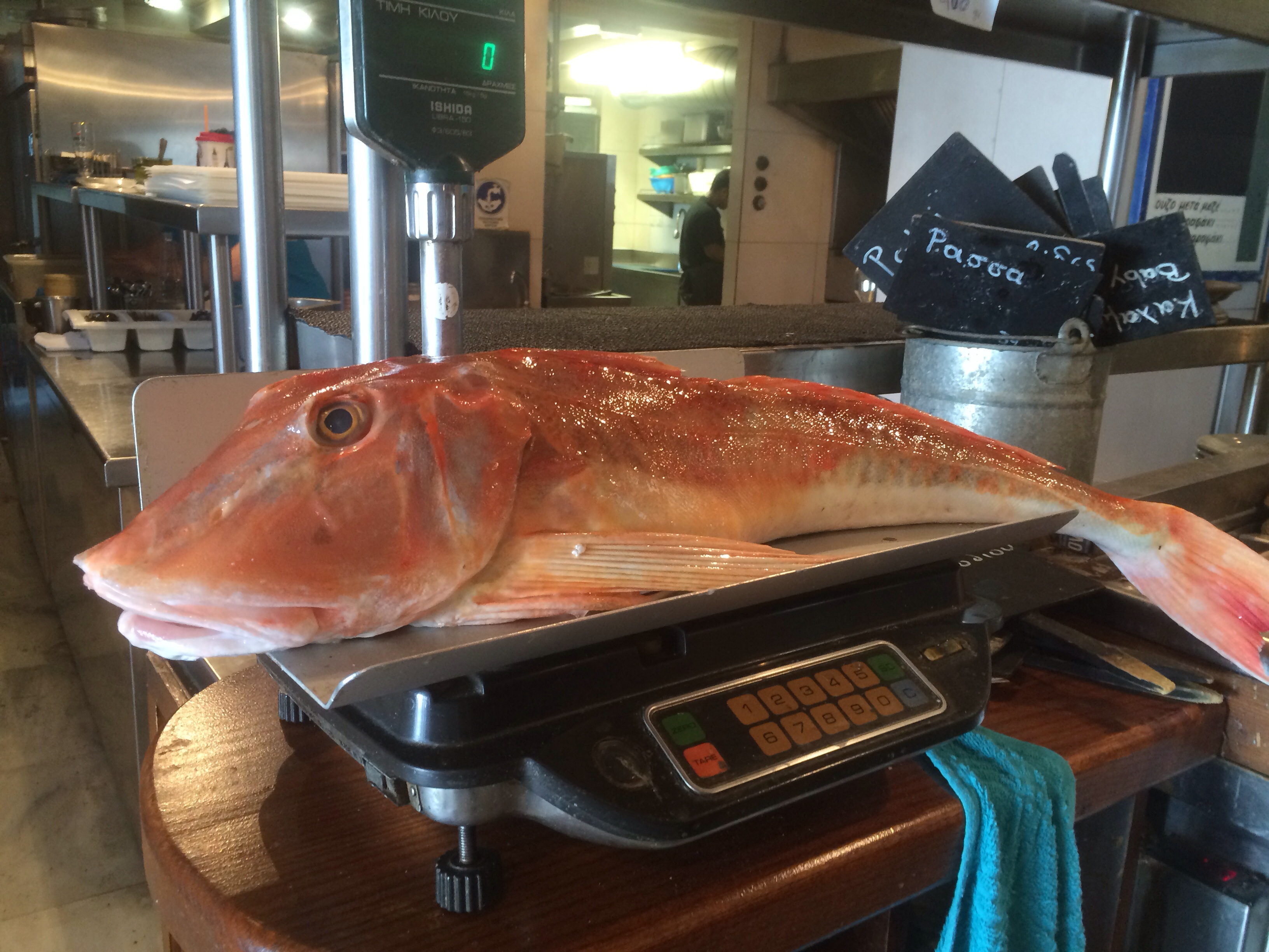 Gurnard being weighed at a fish taverna in Athens, Greece